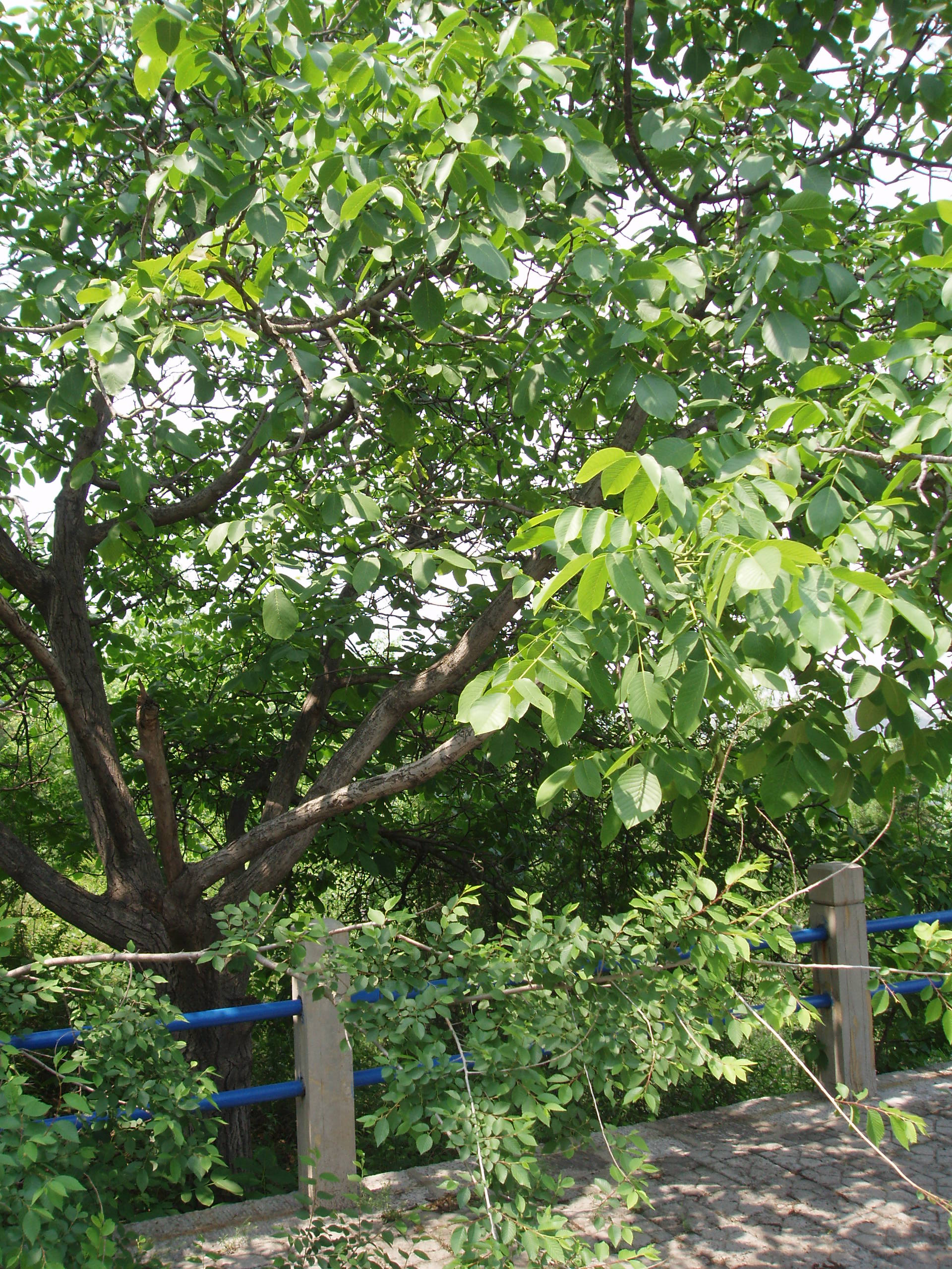 Walnut trees